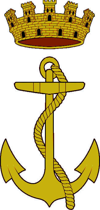 Insignia of the Main Corps of the Spanish Republican Navy (1931-1939)